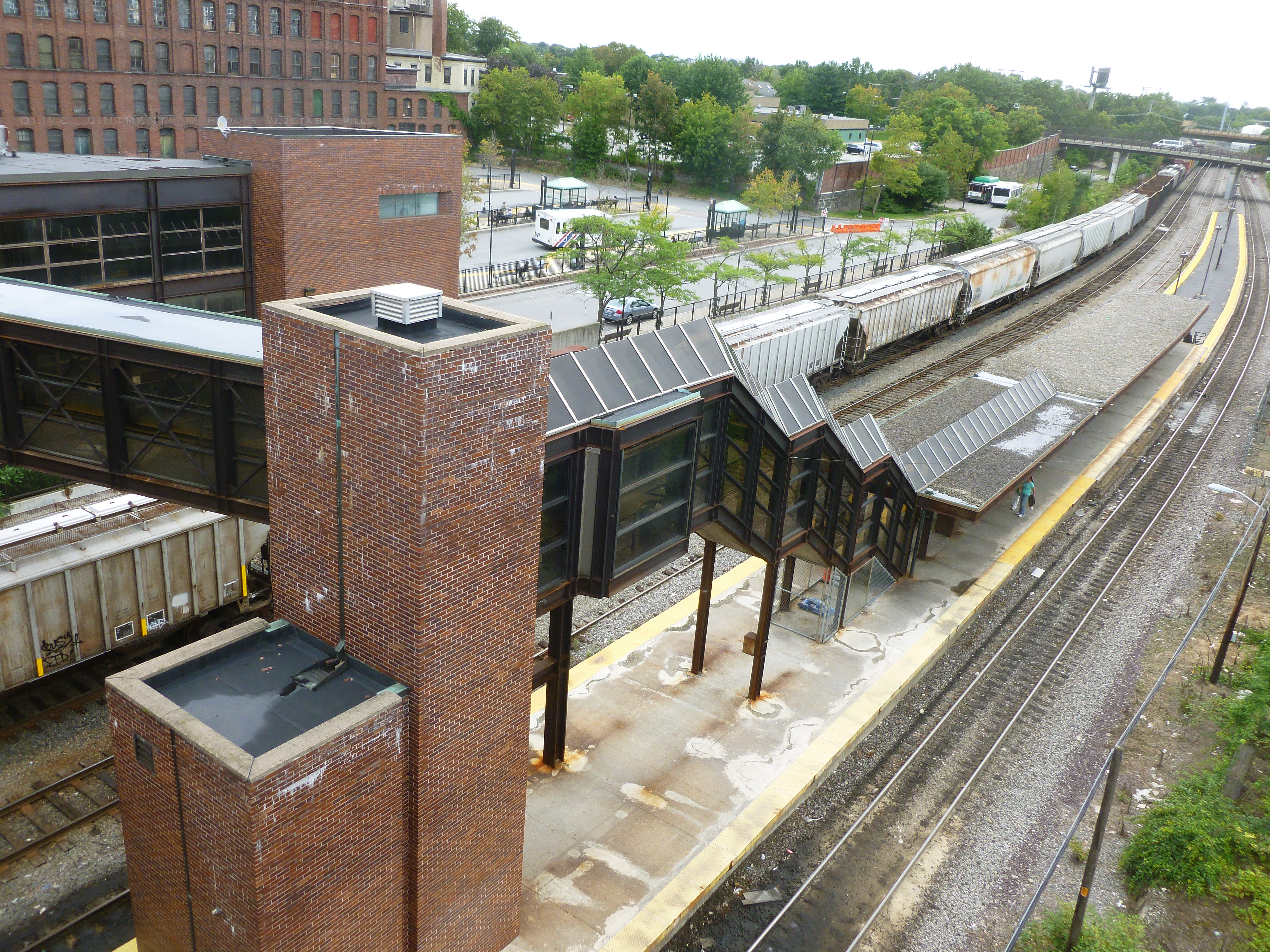 MBTA Lowell line boarding platform at Gallagher station, part of the MBTA Commuter Rail Lowell Line. Located at 101 Thorndike Street, Lowell, Massachusetts.